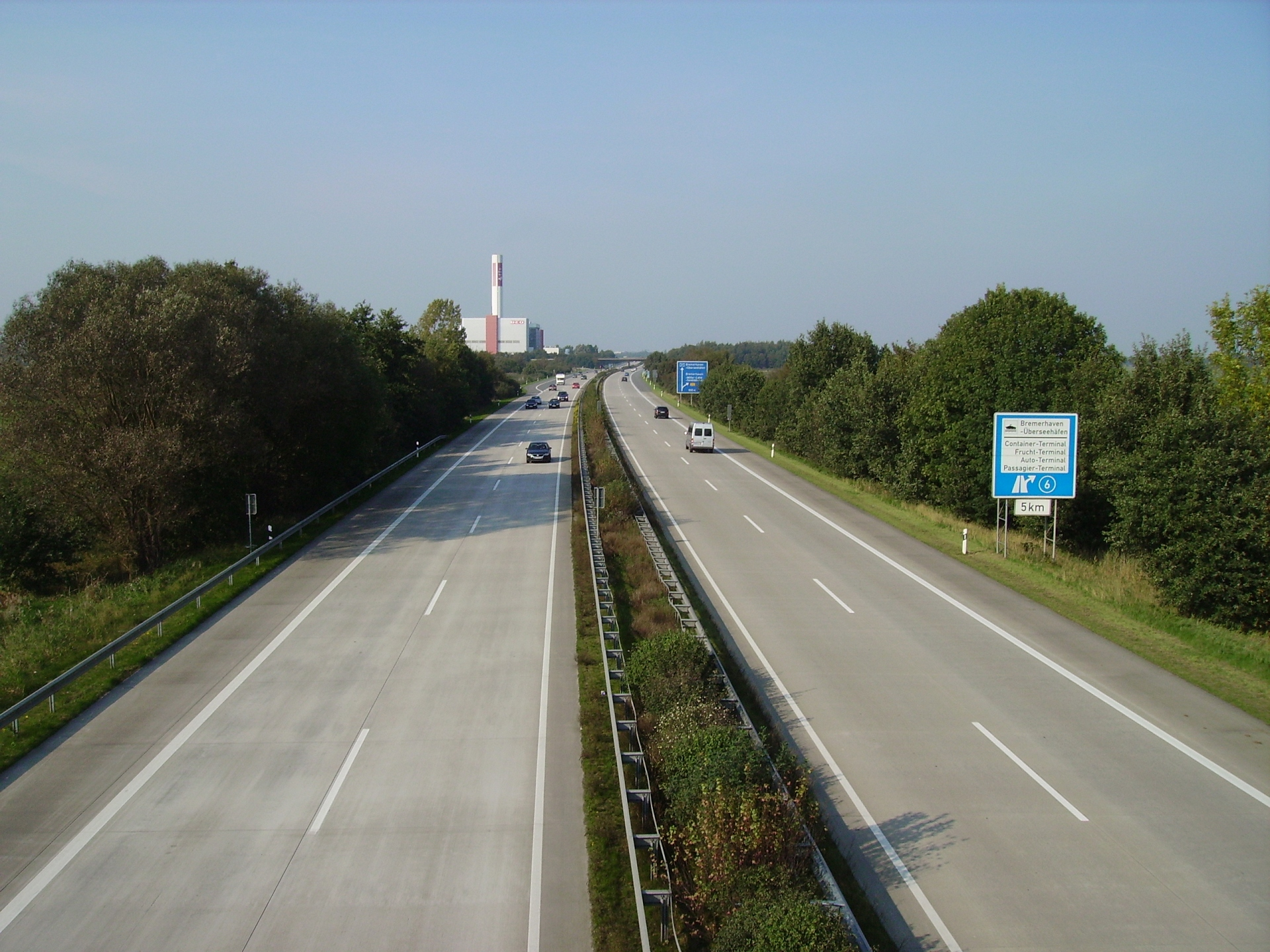 The motorway A 27 in Germany near the exit Bremerhaven-Mitte. In the background you see an incineration plant